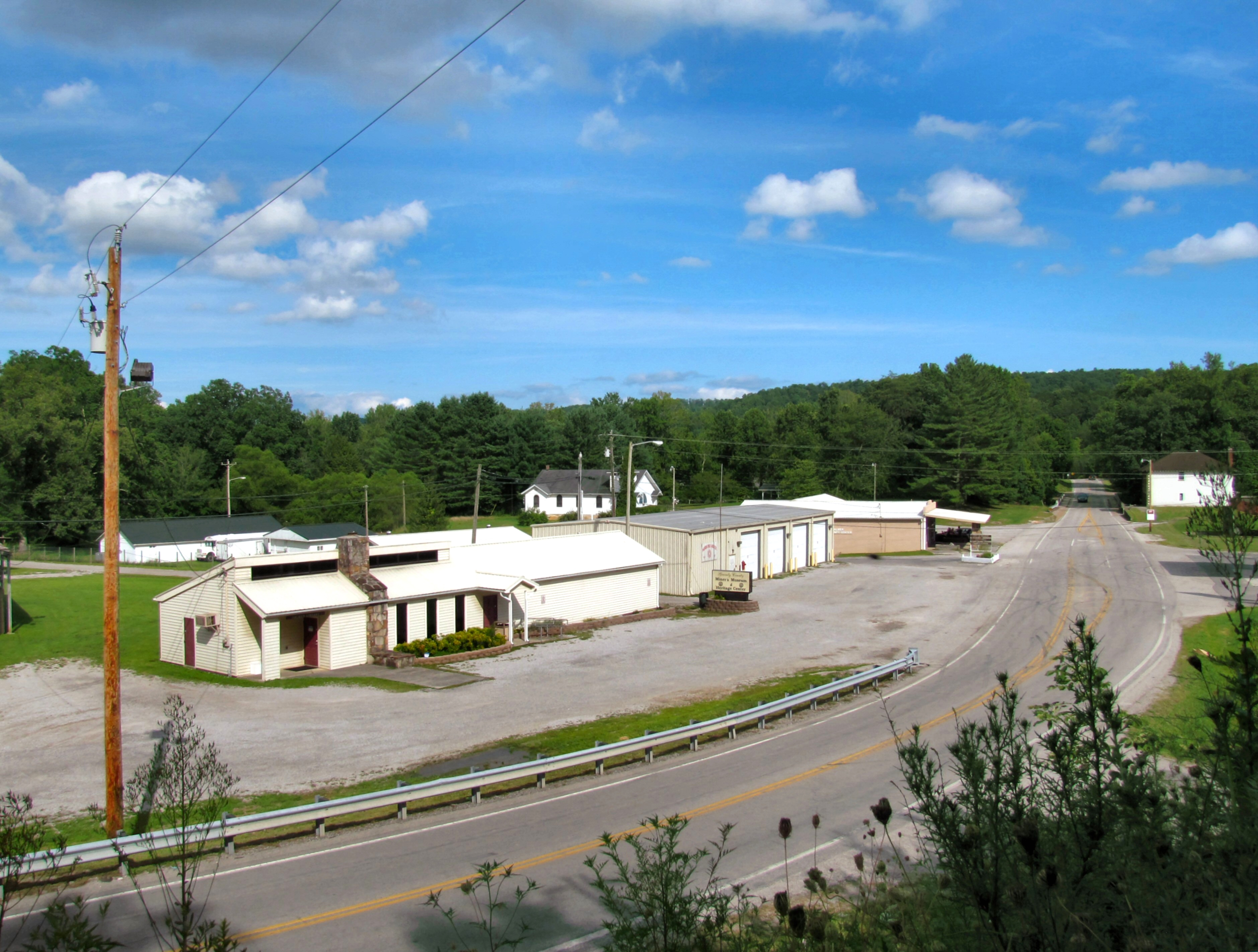 View of Palmer, Tennessee, United States. Tennessee State Route 108 is on the right.